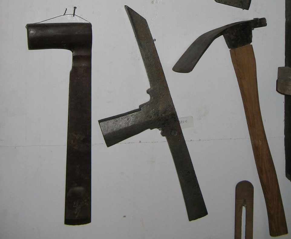 Stikøkse og krydsøkse, samt skarøkse. Foto fra Kajsergården i Randers. From the left they are: slick axe, twybil and adze. This file was made by B. M. Askholm, Please credit this: B. Askholm foto An email to B. Mathias at baskholm(--) would be appreciated too.